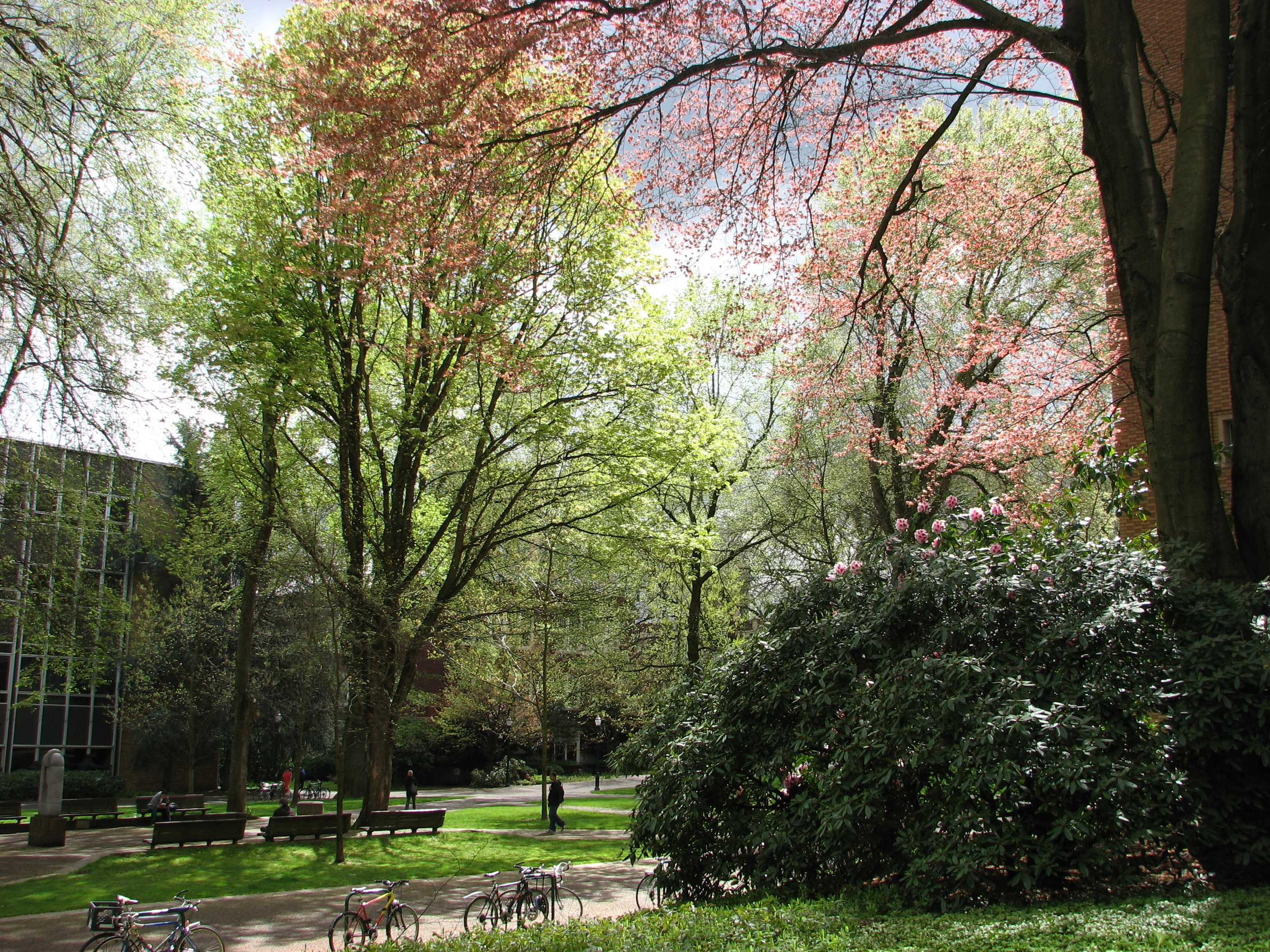 The central area of the Portland State University campus in spring of 2007